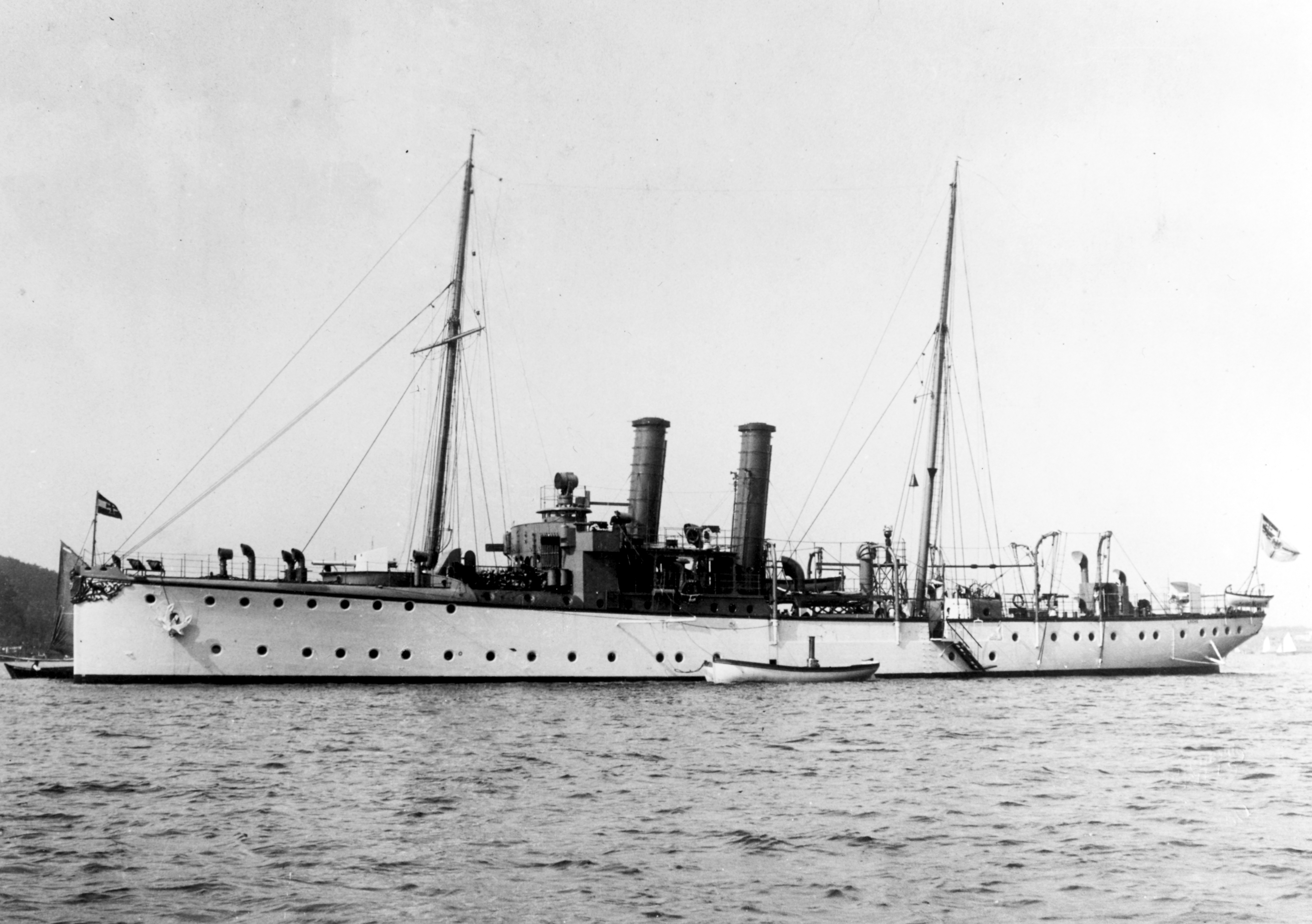 Title: LUCHS (German gunboat, 1899-1914) Caption: Photo by Arthur Renard, Kiel, 1900.